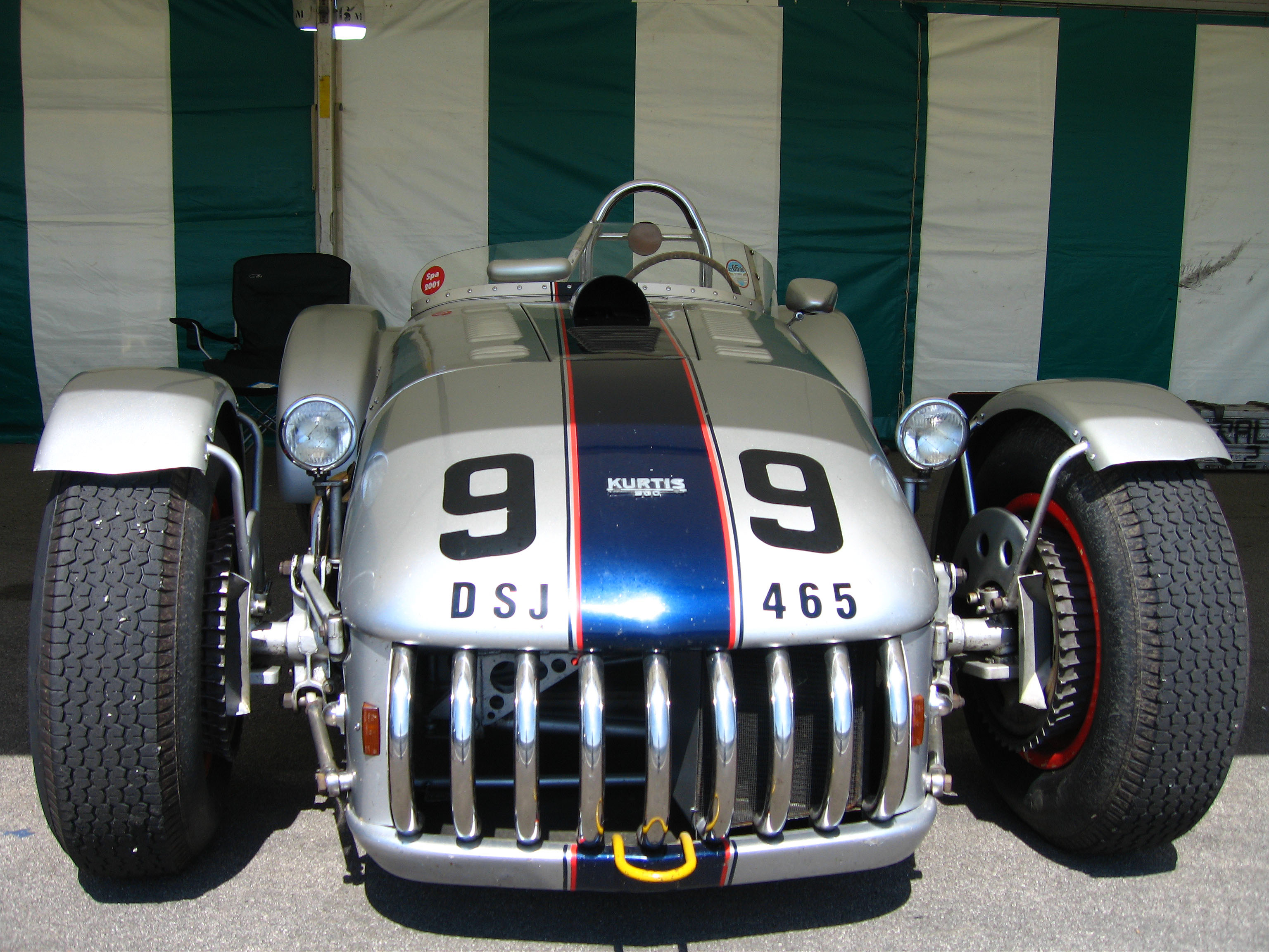 Accortding to the programme, this is a Kurtis 500S. Made between 1947 - 1955.Historic Sportscar